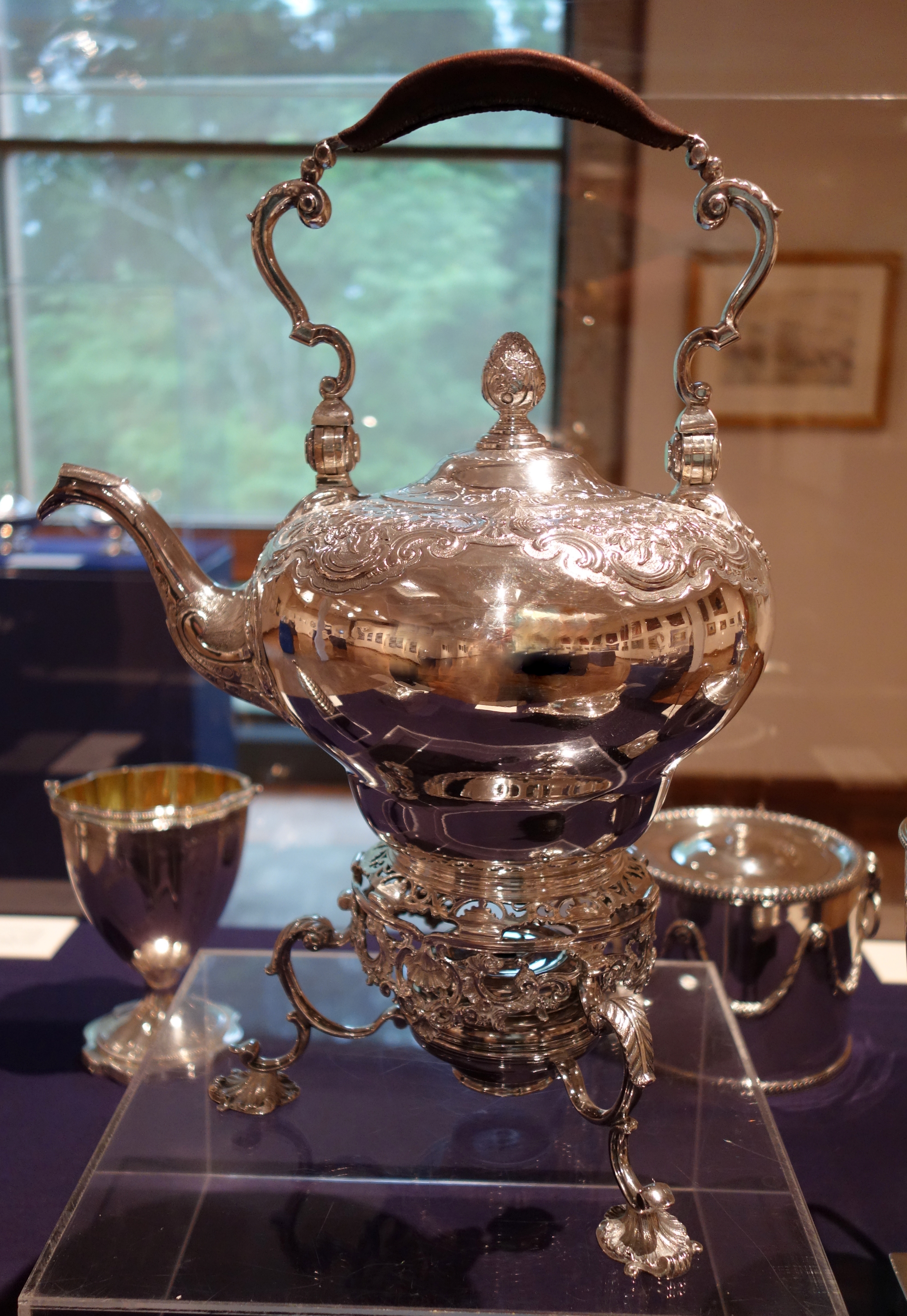 Exhibit in the Huntington Museum of Art, Huntington, West Virginia, USA. This artwork is in the public domain because the artist died more than 70 years ago.